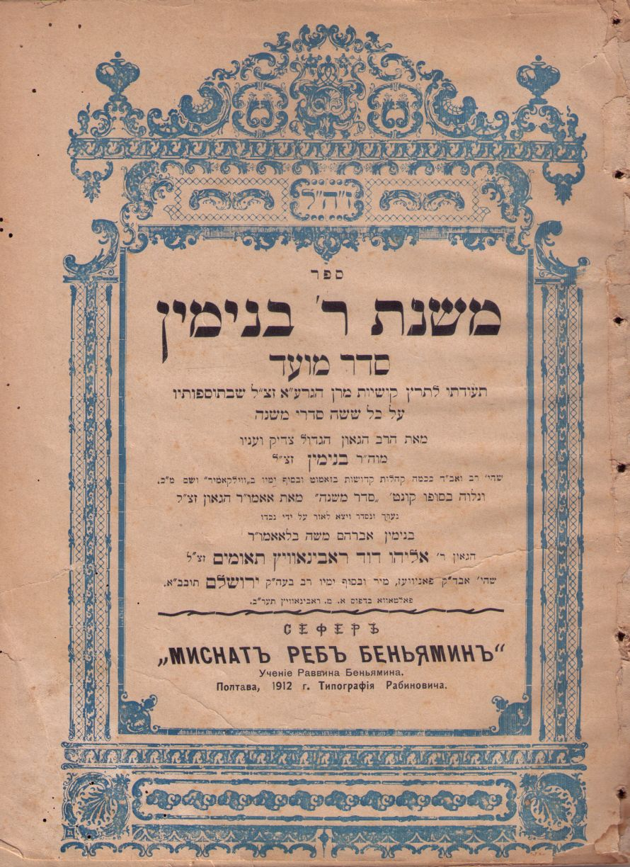 Mishnat rabbi binyamin - old book